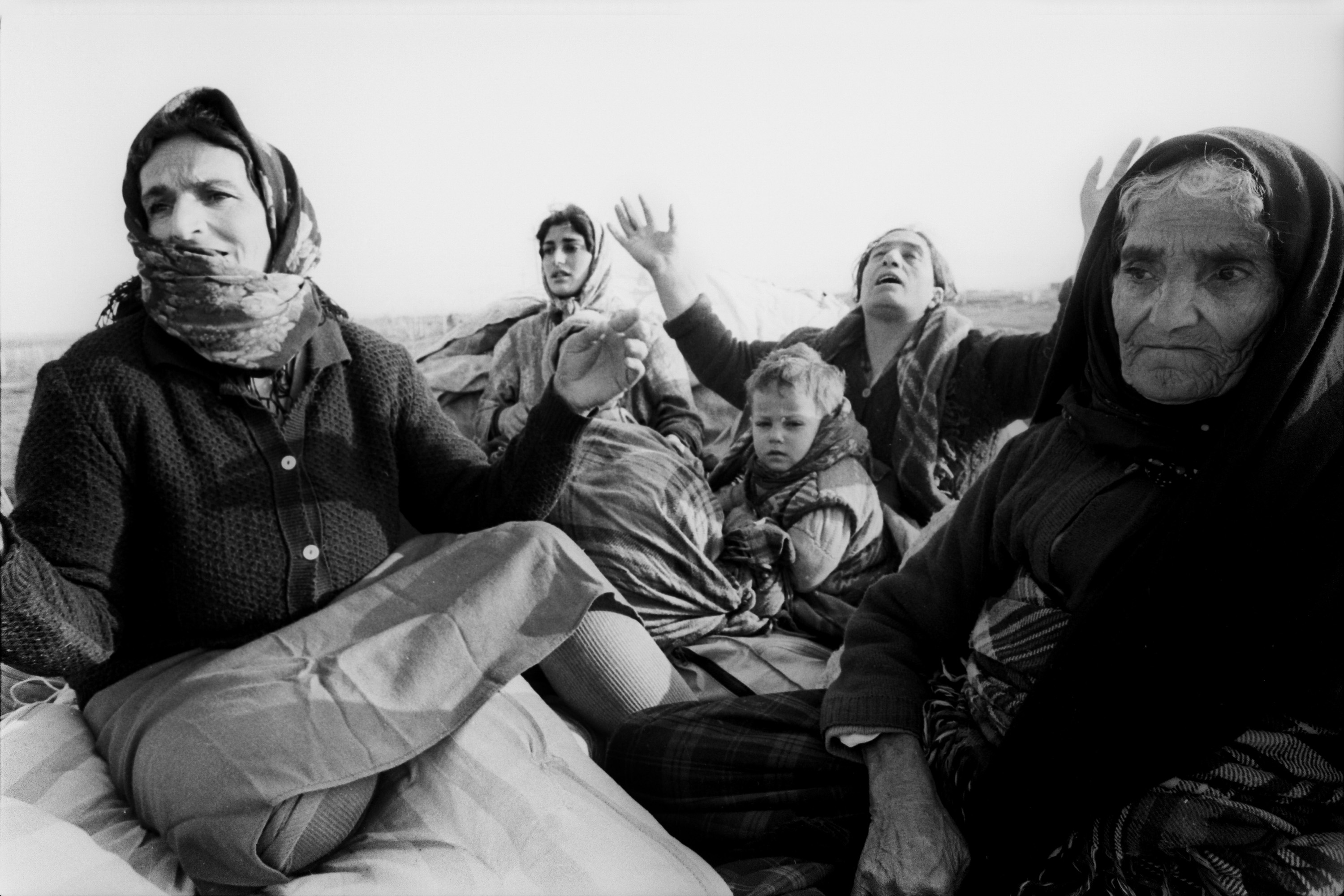 Azerbaijani refugees from Khojaly